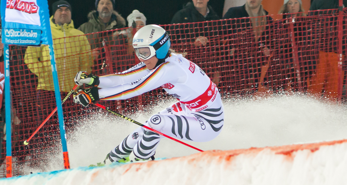 Christina Geiger in action Photo by Roland Osbeck